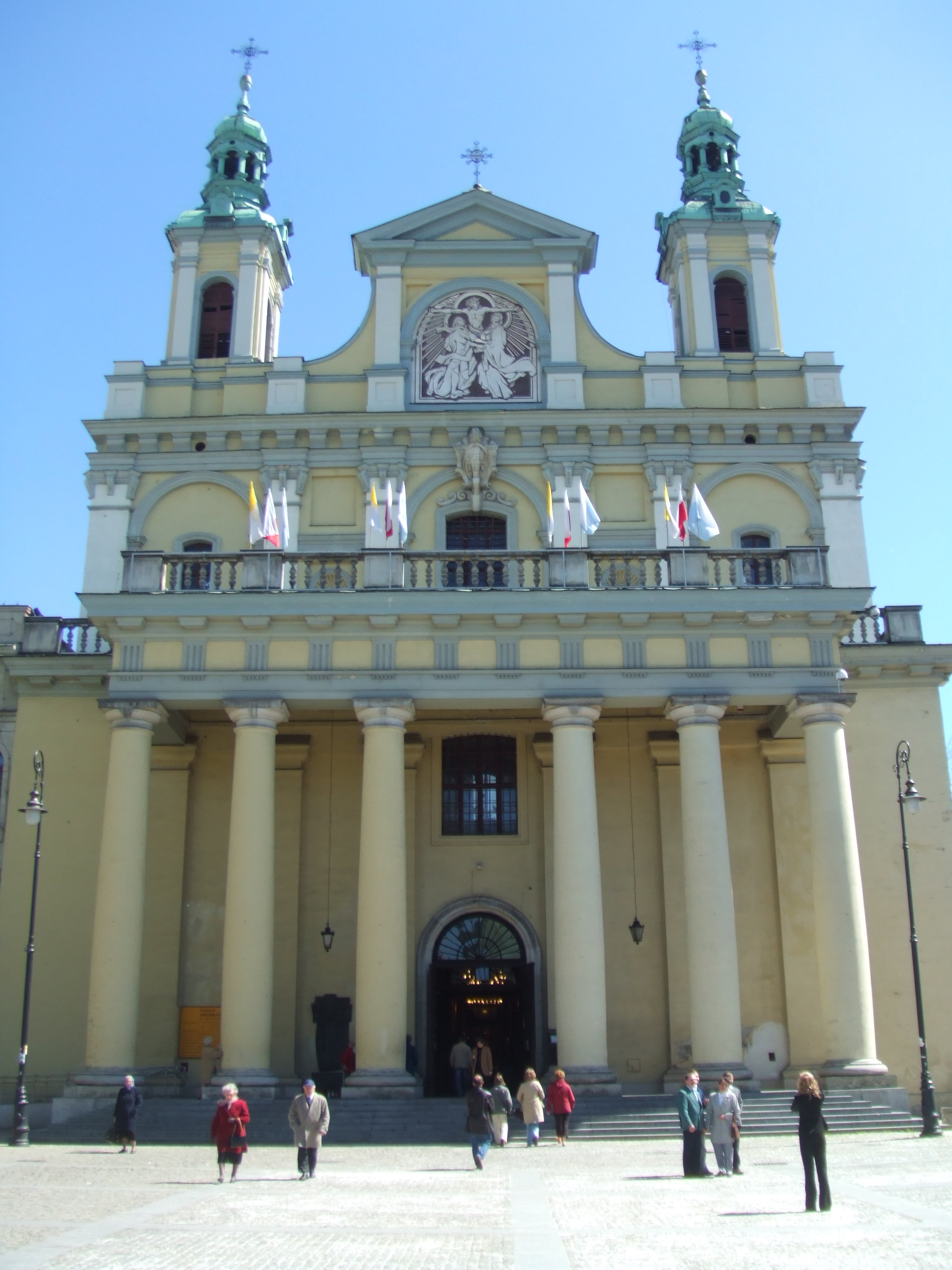 Lublin Cathedral